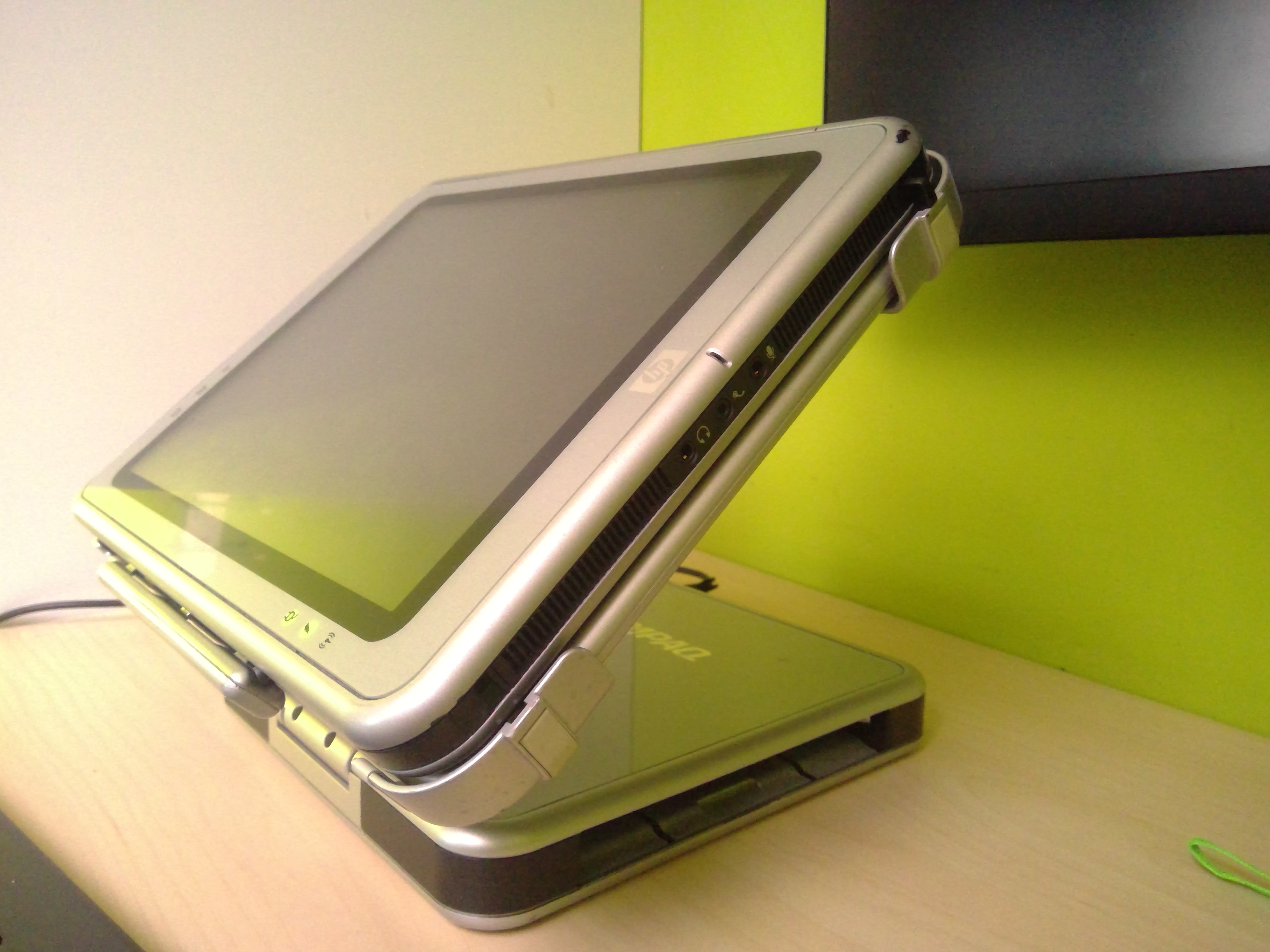 A HP TC1100, which is a tablet from 2004 running Windows XP Tablet PC Edition, is currently being docked in its docking station, which allows an user to easily connect their tablet to charge, output video to a secondary VGA monitor, use wired Ethernet, connect devices to 4 USB ports and provides audio input and output.